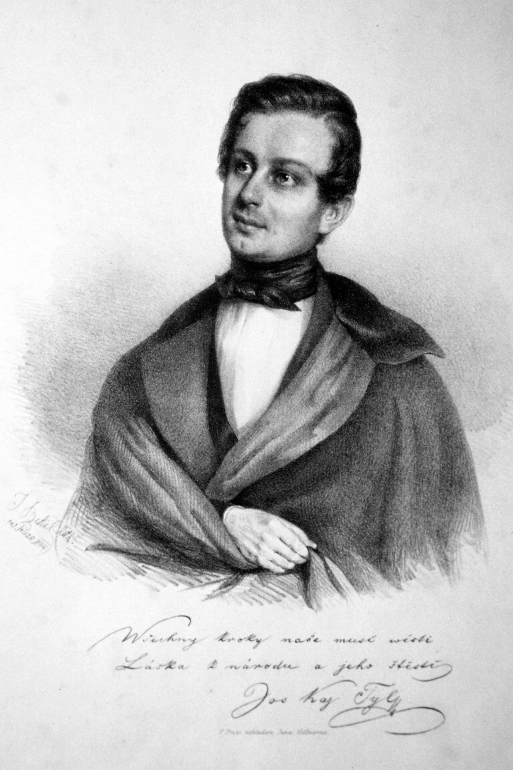 Josef Kajetan Tyl (1808-1856), Czech writer Lithograph by Josef Bekel, 1844